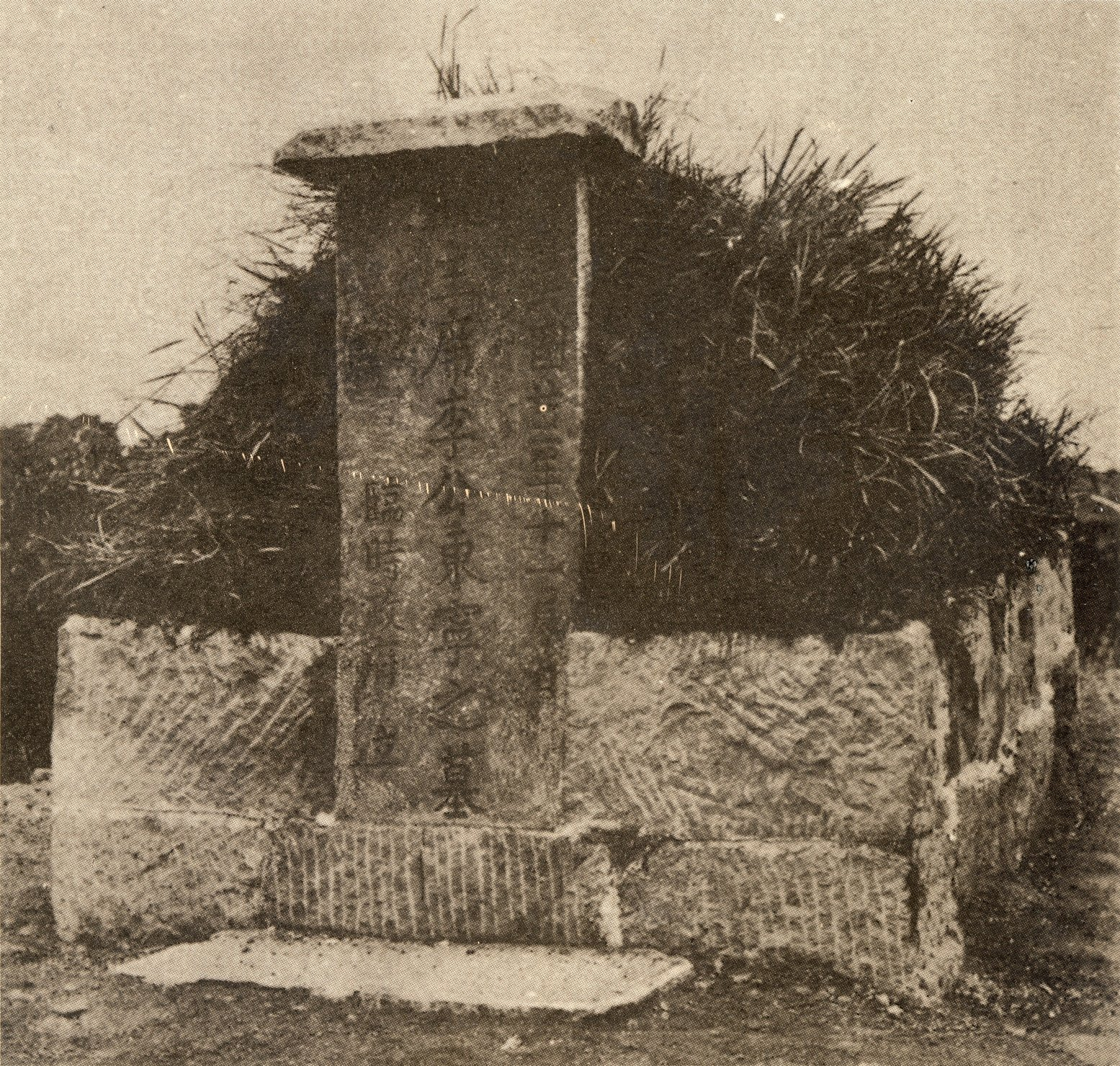 Tomb of Yi Dong-nyung, once located at Qijang County, China.